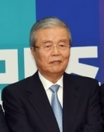 Kim Jongin's press conference in 2016.